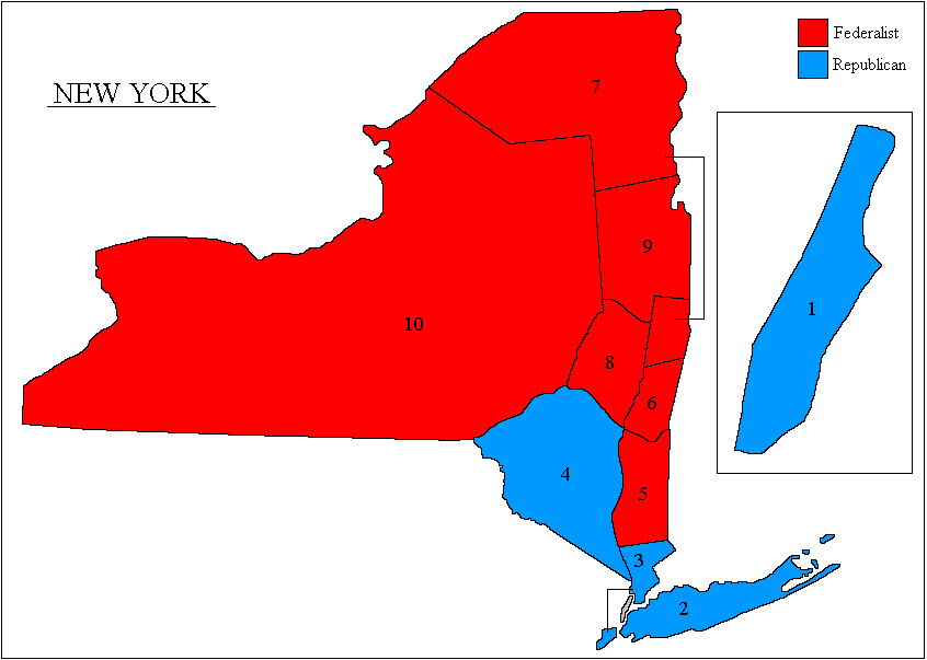 Congressional district map of New York for the 5th Congress, 1796